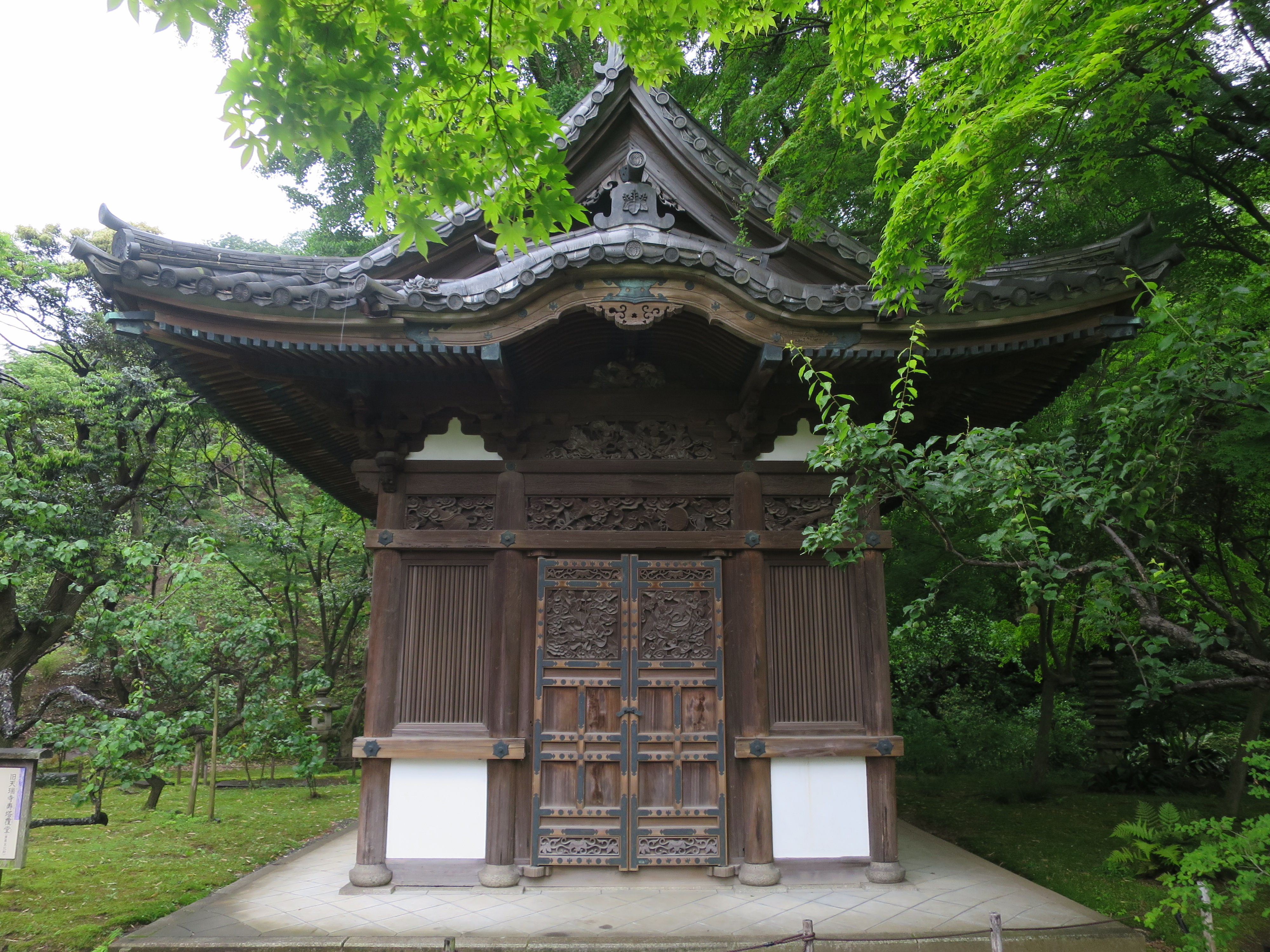 Old Tenzuiji Juto Oido, Sankeien Garden, Yokohama